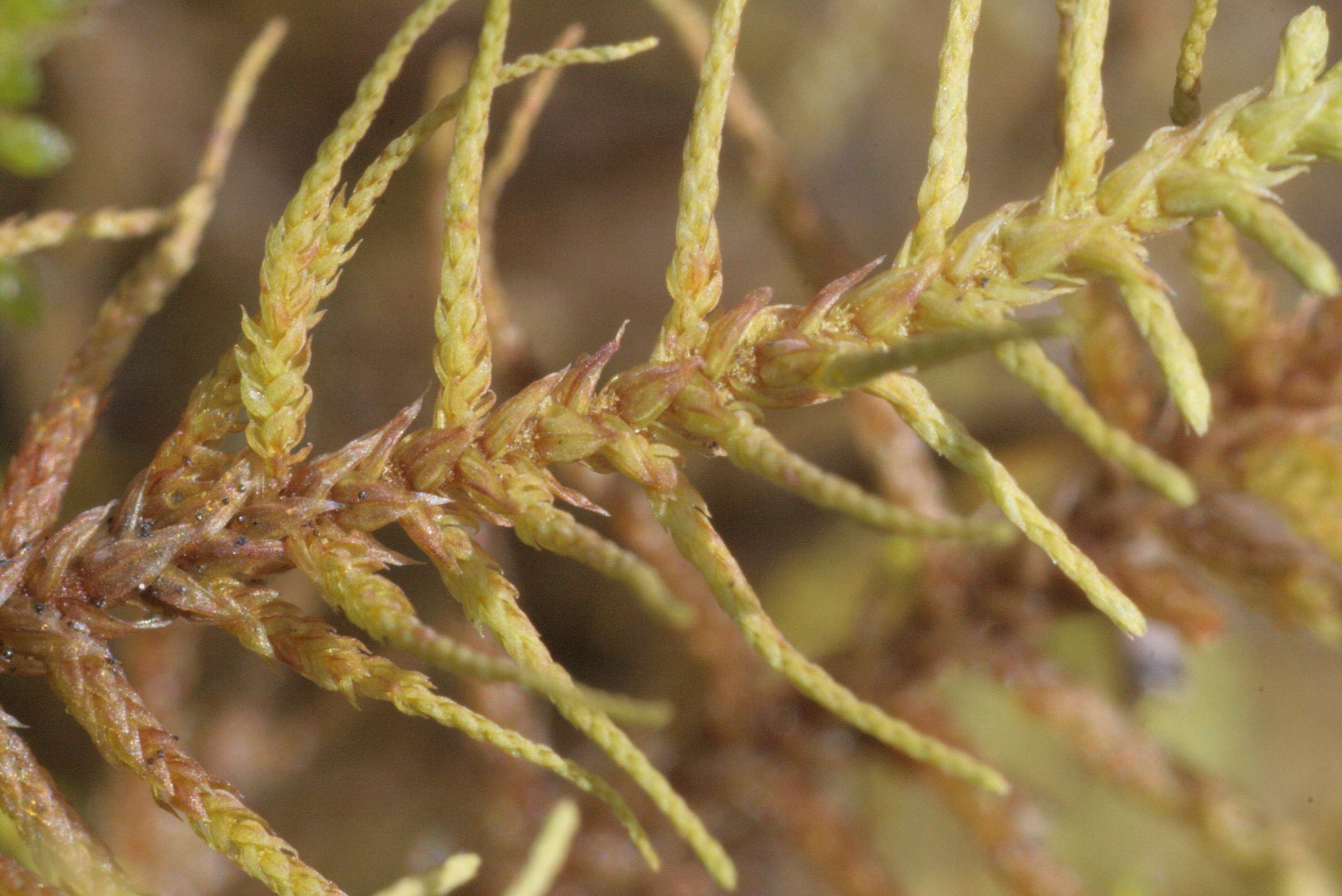 Abietinella abietina